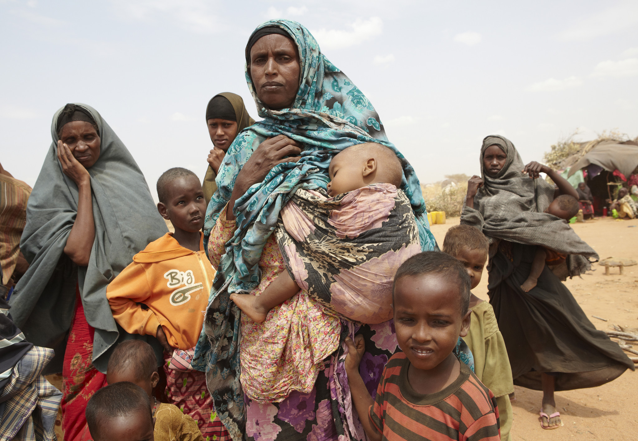 Ambia Mohammed is left struggling to look after her grandchildren. Their mother, Ambia's daughter Habiba, died having reached Dadaab from Somalia six days ago. Photo: Andy Hall/Oxfam